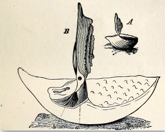 Thecidium mediterraneum (=Lacazella mediterranea); Thecideidae; A. natural size: B. section through shell (magnified)